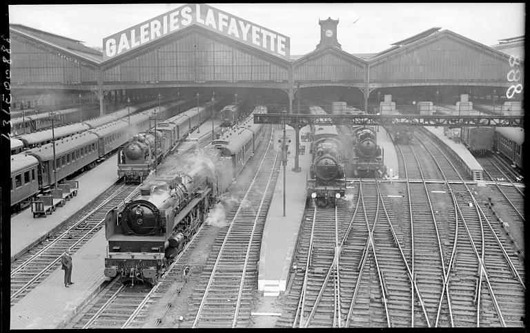 Tracks of the gare Saint-Lazare (Paris) in the 1930s with 4 steam locomotives